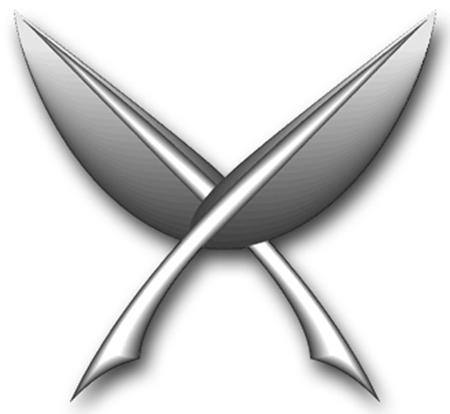 US Navy Yeoman (YN). Crossed quills, nibs down.